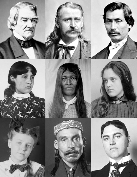 Collage of Cherokee men and women from public domain sources.